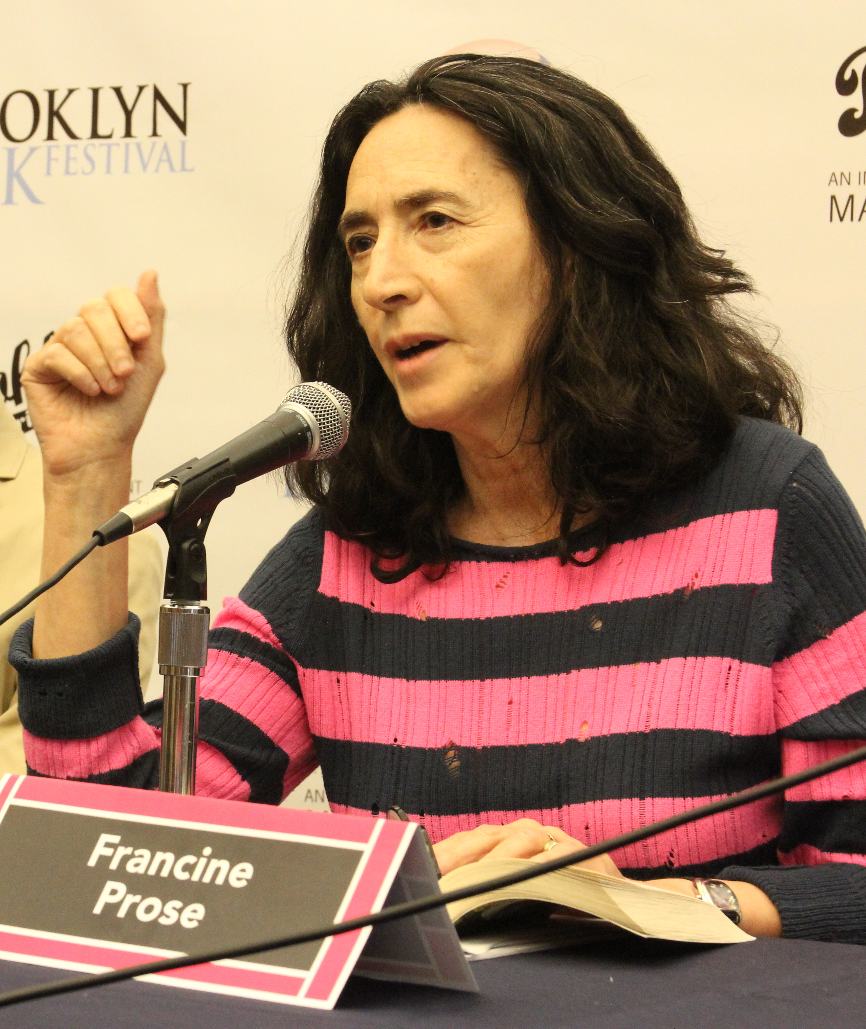 Thad Ziolkowski and Francine Prose